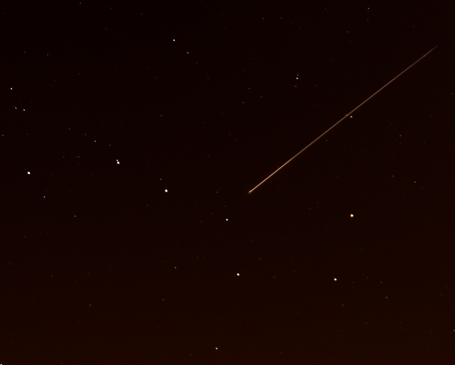 Meteor passing by the Big Dipper